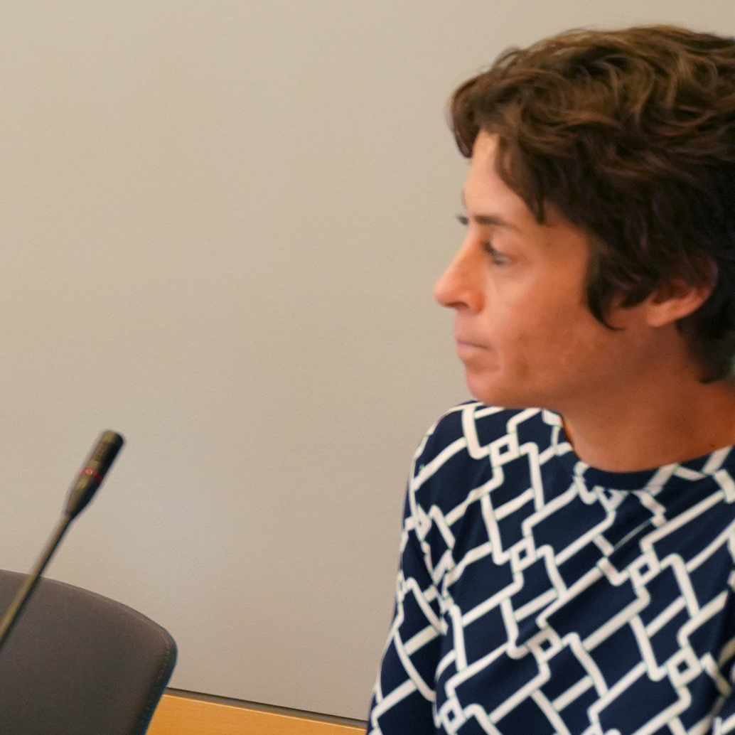 From left to right: Nadine Bloch, Aden Abdi,USIP's Palwasha Kakar, USIP's Veronique Dudouet, and USIP's Maria Stephan discuss people power and peace processes. Eminent members of the peacebuilding community, diplomats, scholars, business leaders, military strategists and other specialists gathered from hundreds of organizations across dozens of countries at PeaceCon 2019. Take part in the conversation on social media with #PeaceCon2019. For more information about this event, please visit